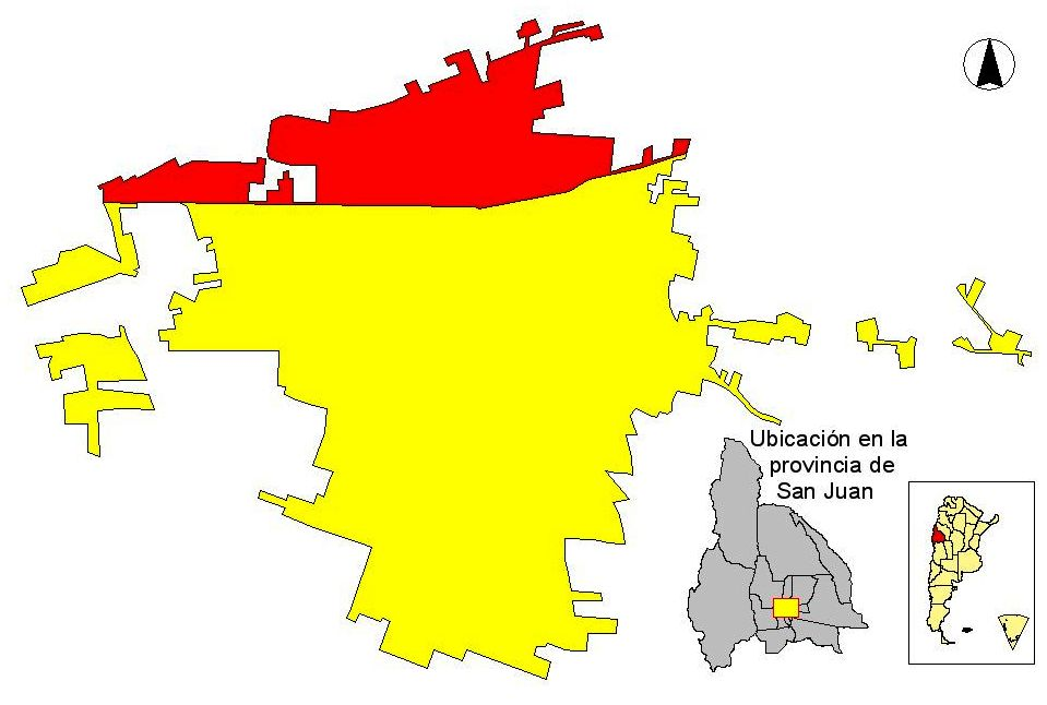 Map depicting the localizacón the Chimbas Component within the urban agglomeration of Great San Juan, located in the San Juan Province, Argentina